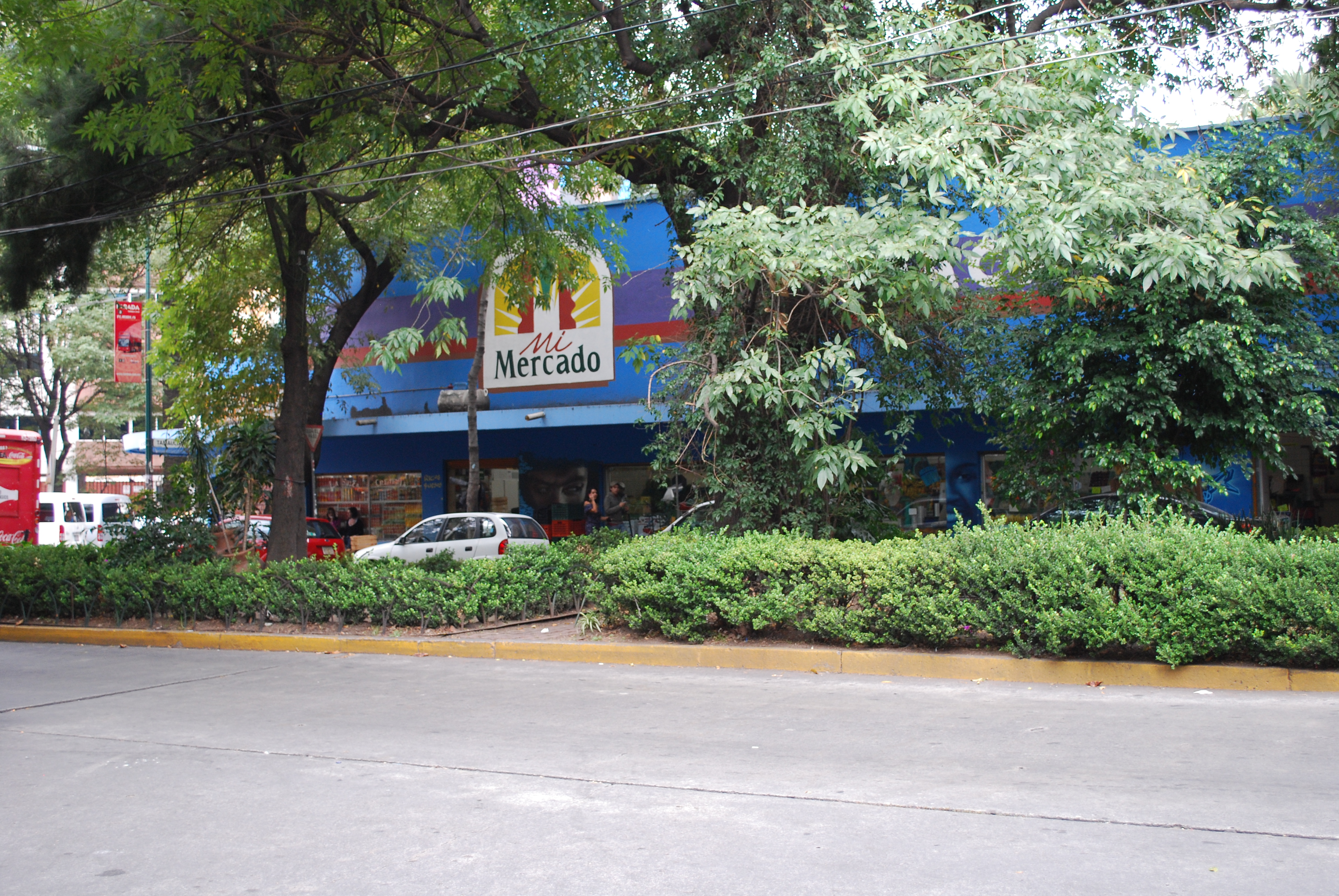 Traditional Mexican market in Colonia Condesa, Mexico City